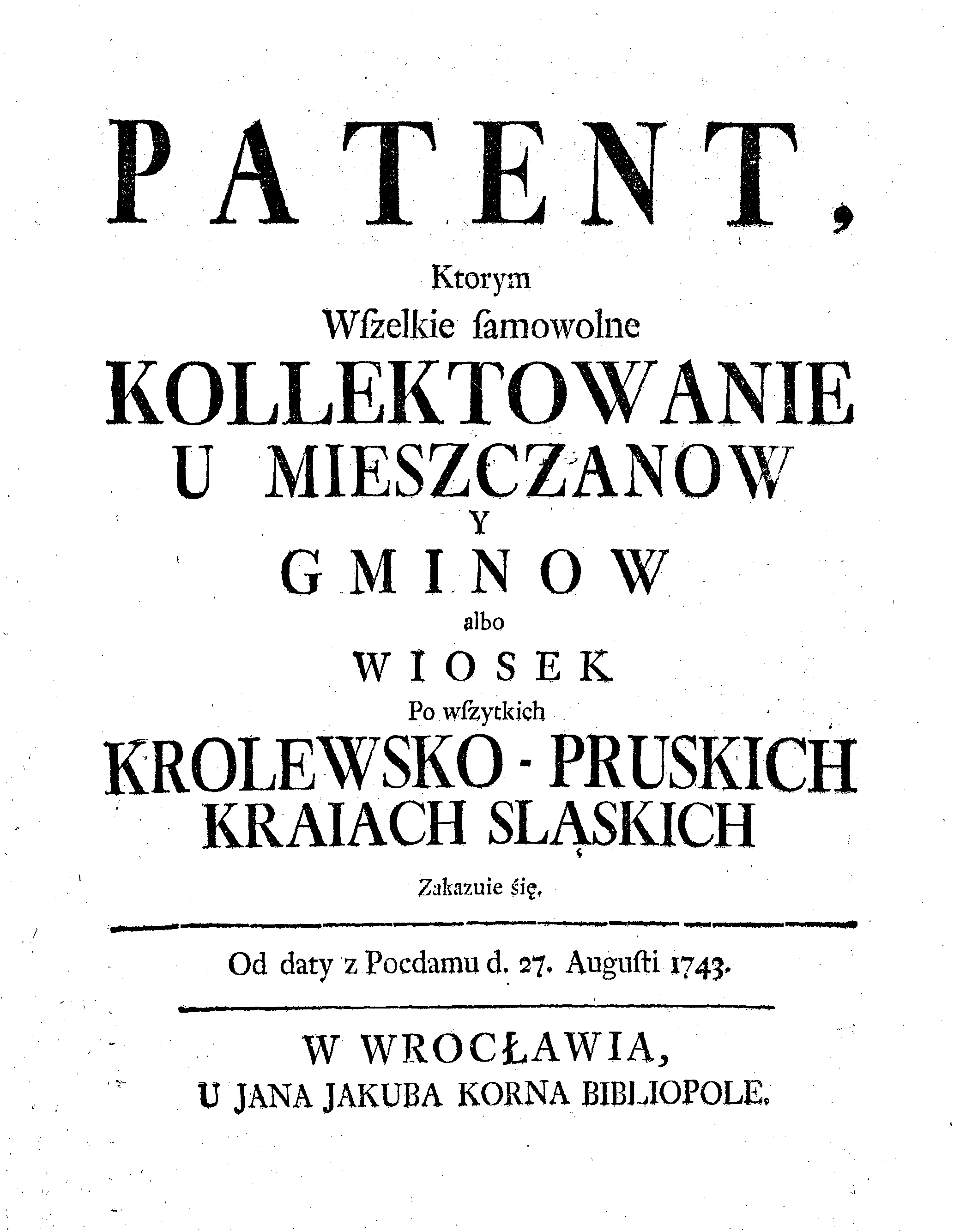 Patent in Polish language of Frederick the Great King of Prussia published in Wrocław 1743.